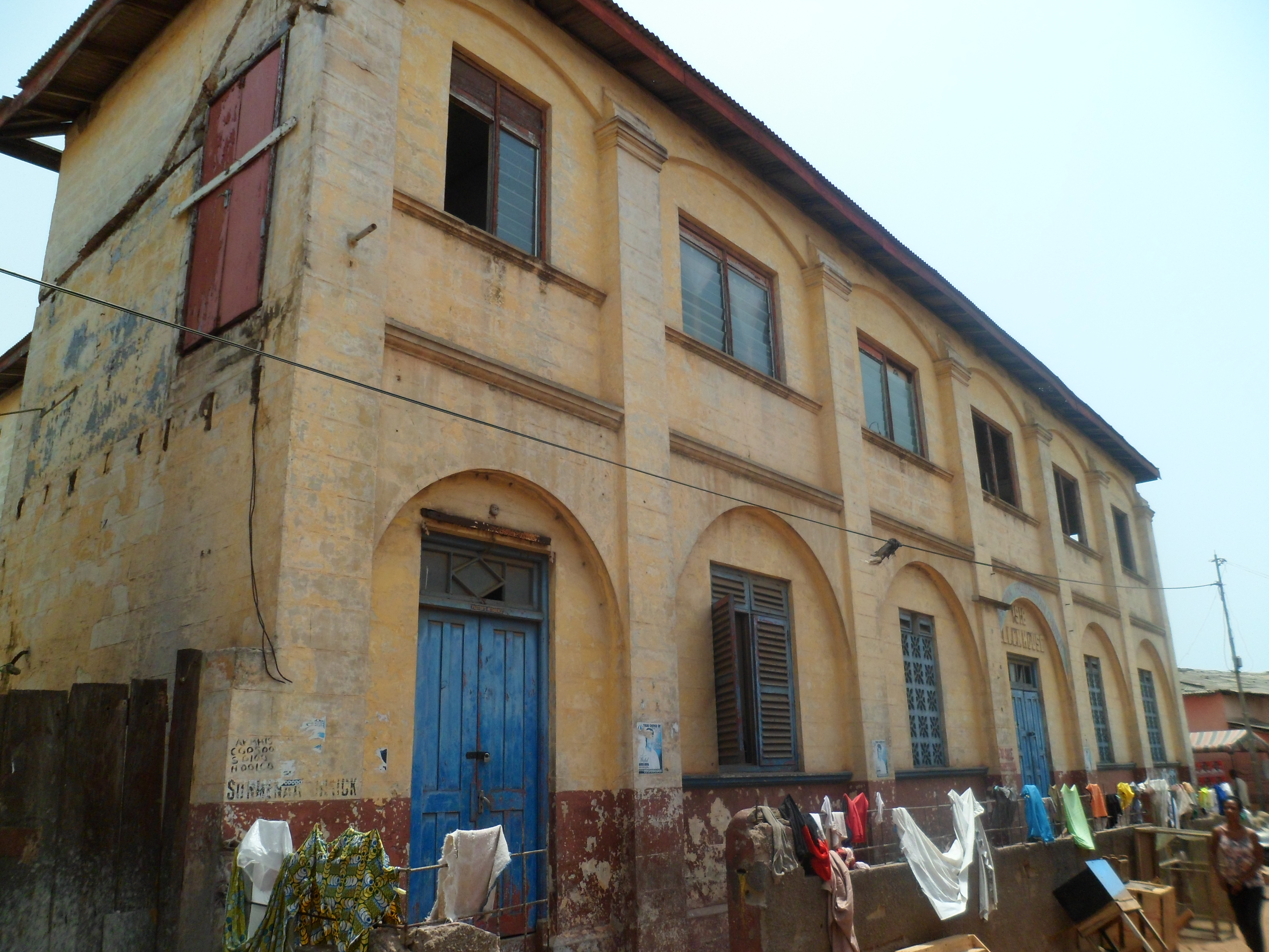 This is a photograph of Ellen House, located at James Town (Ghana)